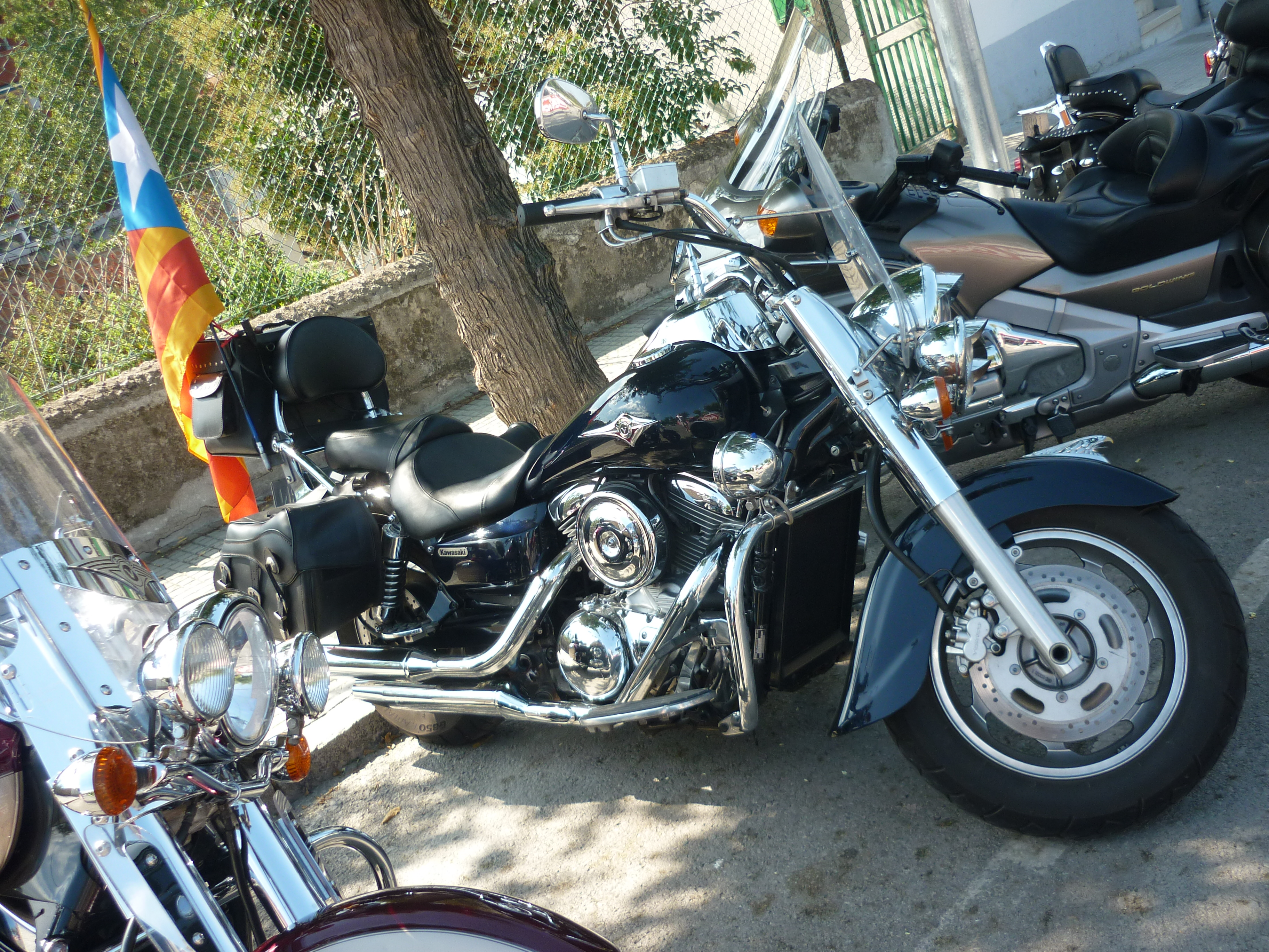 Kawasaki Vulcan 1600 Classic (2008) flying the Estelada (Catalan independentist flag). Motorcycle meeting held on September 10, 2011 in Can Carrancà (near the Derbi factory in Martorelles, Catalonia).